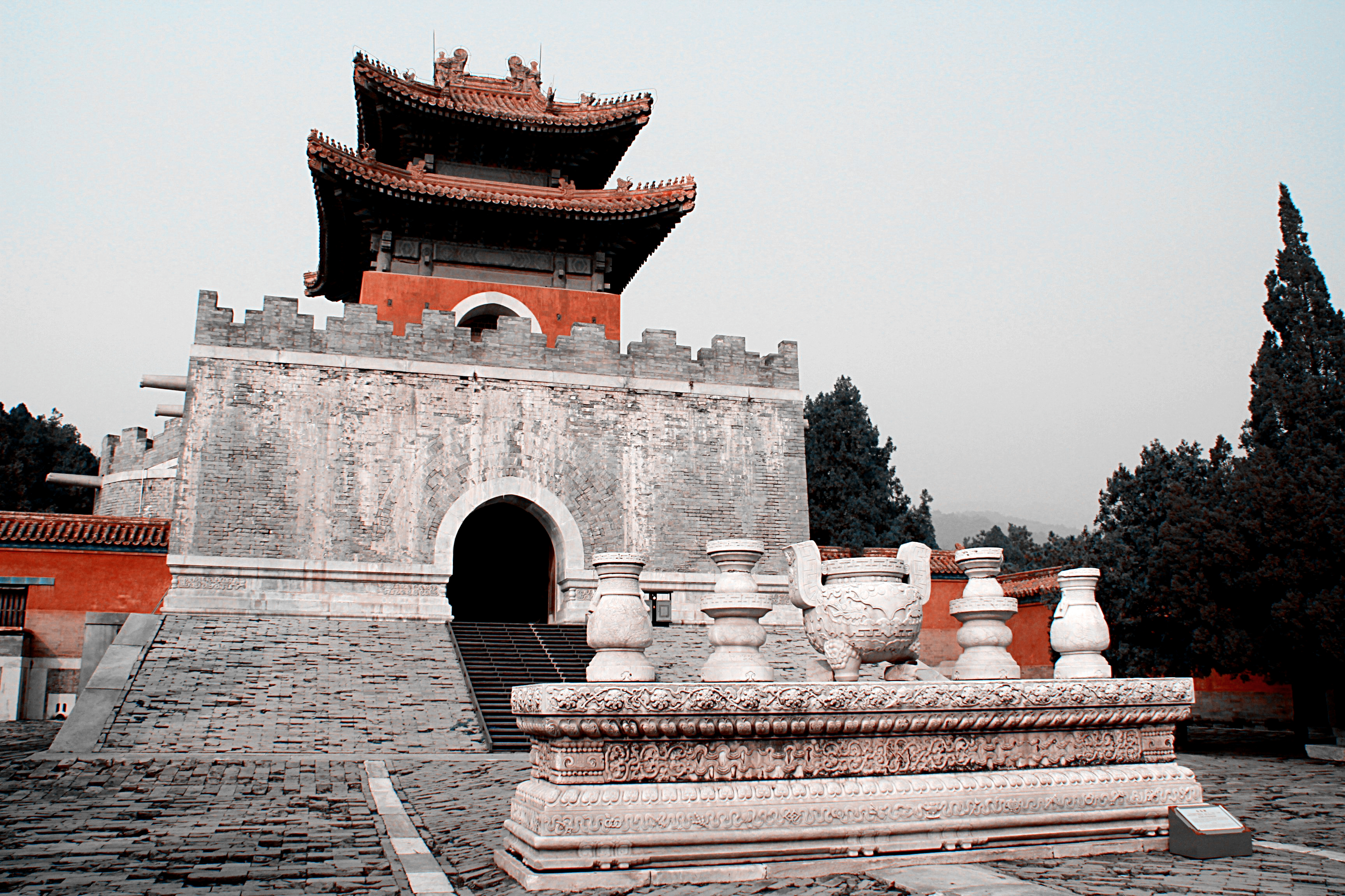 Photograph of the memorial tower of the tomb of Empress Dowager Ci'xi in the Eastern Qing Tombs, Zunhua County, Tangshan, Hebei, China.